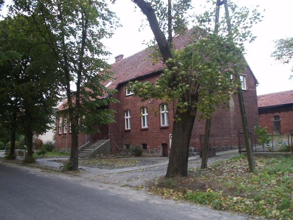 Shool in Dusina, Poland